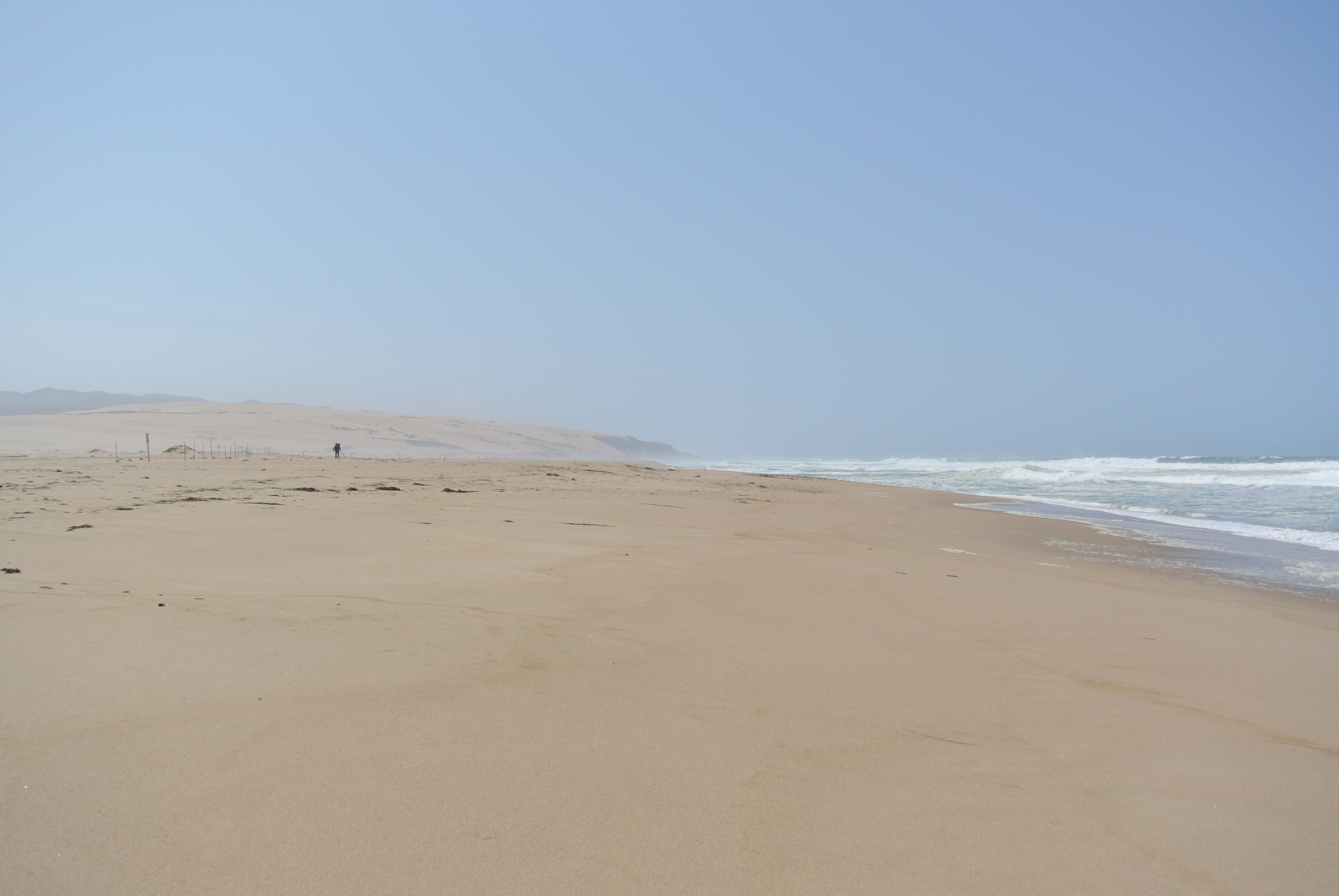 Beach at the Guadalupe Dunes County Park (also called Rancho Guadalupe Dunes).